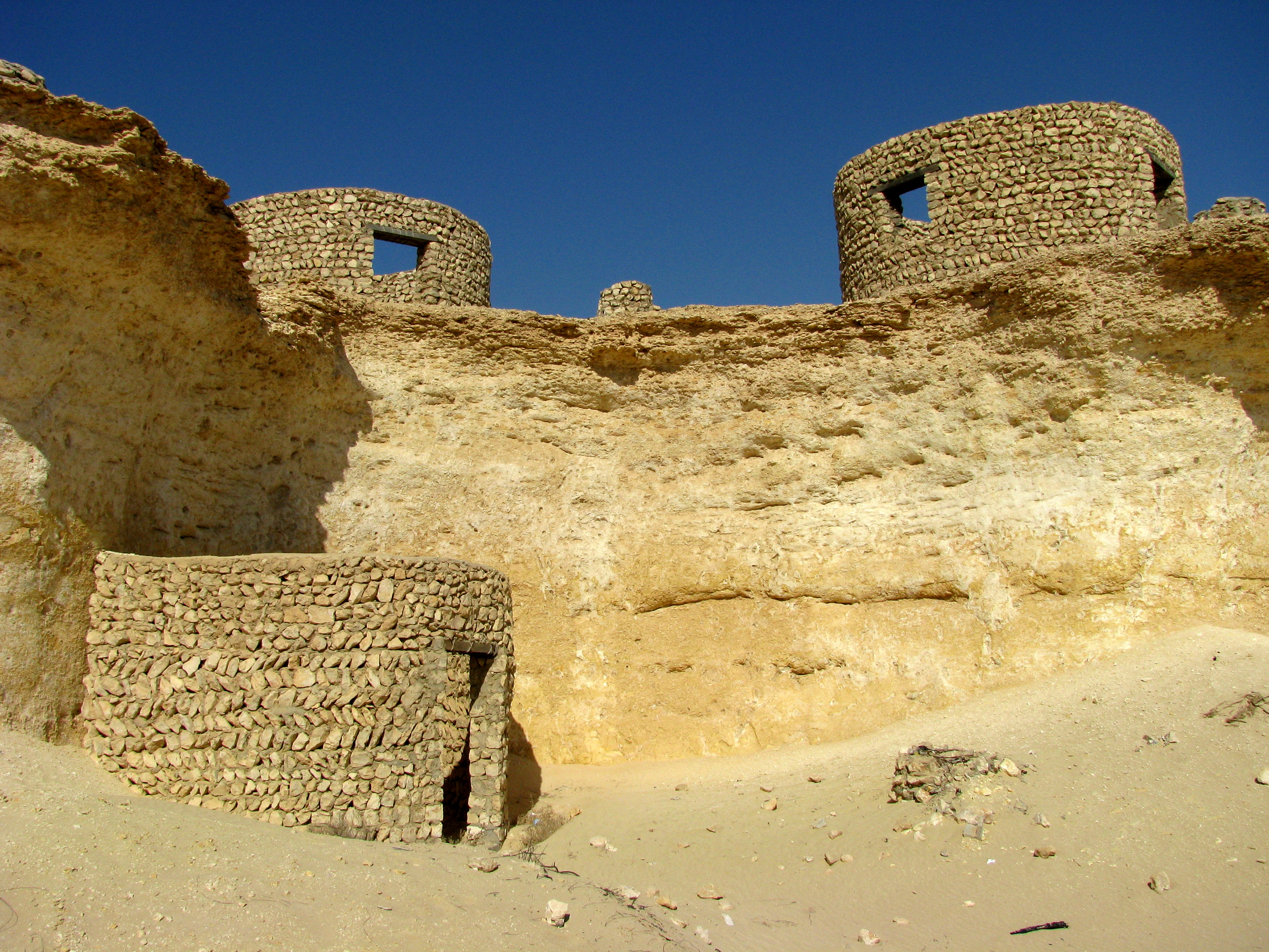 Our friends from Doha called this place Mysterious City; some other people seem to call it Mystery Valley. The common theme is that people don't know the purpose of these stone huts, which are all in a small valley in the Qatar desert.